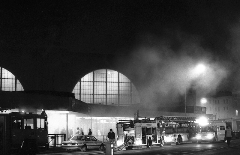 Fire at Kings Cross underground station in 1987